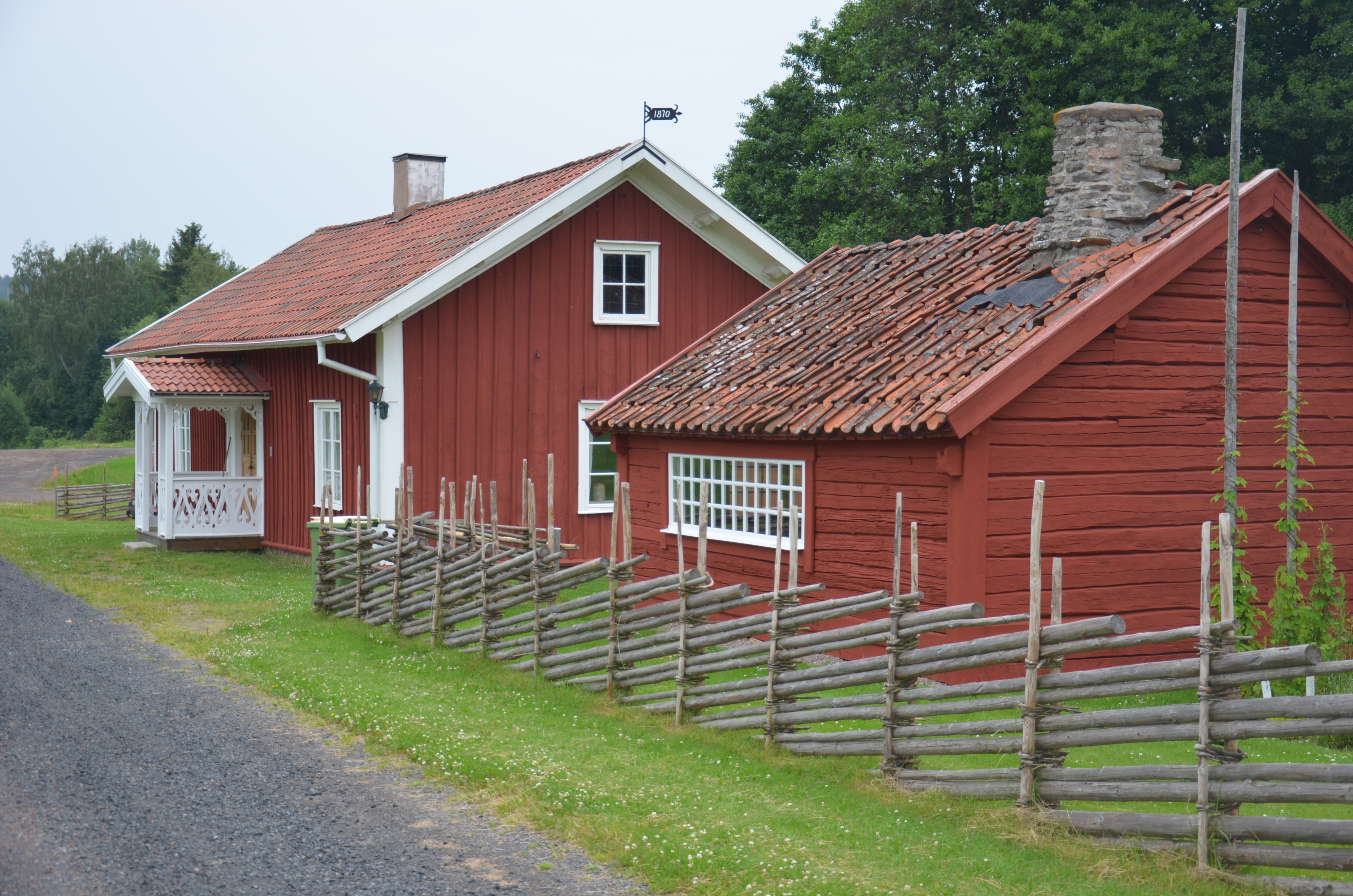 Fattigstuga Bankeryd, flyttad till hembygdsgården i Prinseryd, numera Penselmuseet